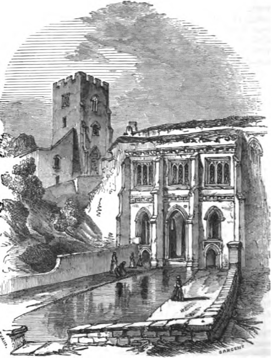 St Winifred's Well, FlintShire (Robert Chambers, p.6, 1832)